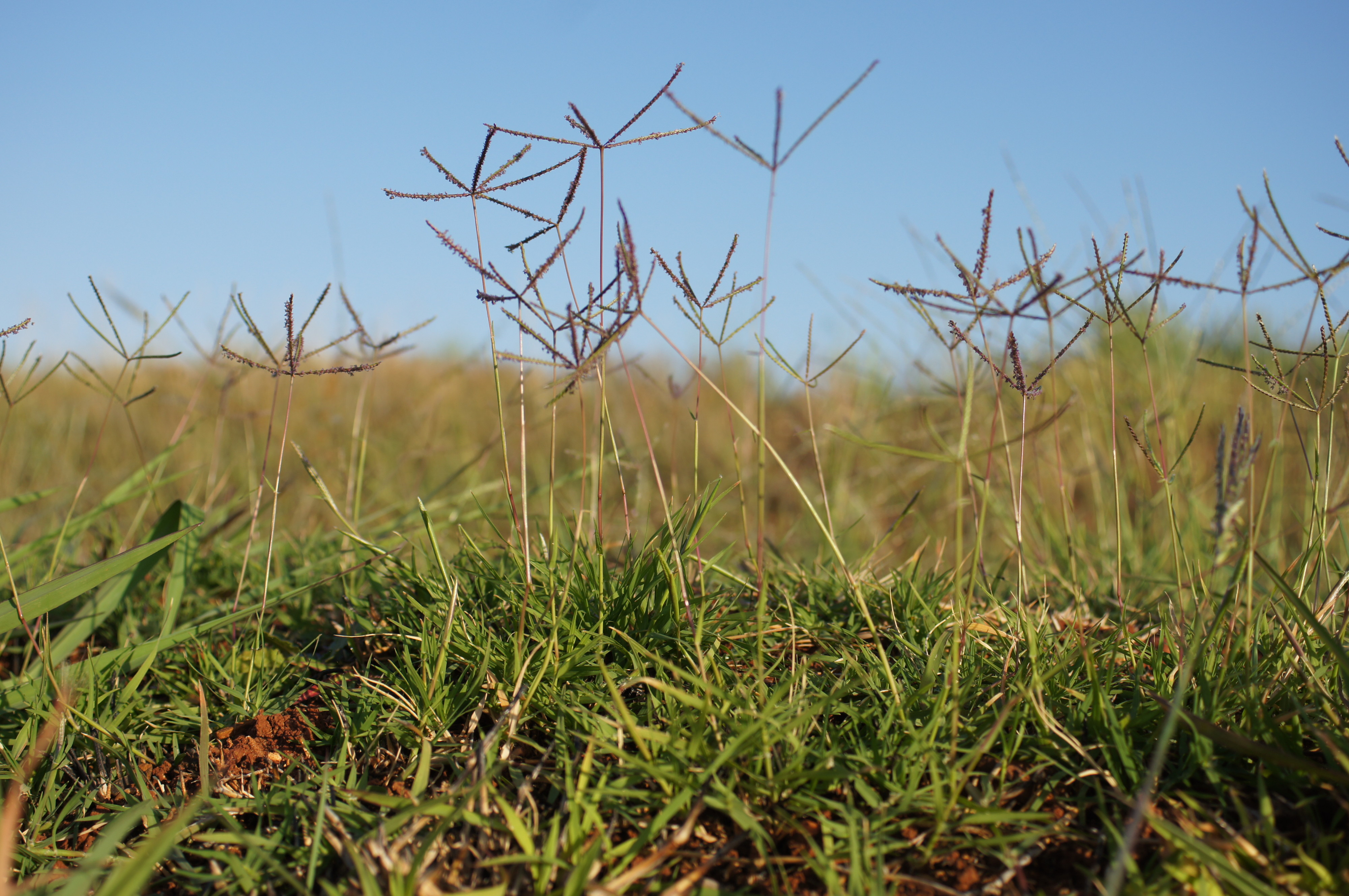 Native, warm-season perennial, mat-forming grass to 30 cm tall and with extensive stolons and rhizomes. Leaves are green, hairless to sparsely hairy and relatively short. Ligules are short hairs on a membranous rim with longer hairs at each end. Flowerheads are digitate, consisting of 3-7 thin, usually dark-coloured branches (2-6 cm long). Tolerant of flooding; it is often abundant around backswamps, riverbanks and regularly inundated soils. Readily colonises where pastures have been lost and often found in old cropping paddocks and horse paddocks. Extremely tolerant of acidity, salinity, low fertility, sandy, compacted and very shallow soils. A useful soil binding species, especially in difficult situations (e.g. low fertility, frequently flooded, saline or acidic soils, etc). Can be an indicator of compaction, salinity, sandy soils and /or high water table. A weed of ploughed paddocks, where it is difficult to eradicate. Not very productive and has low palatability for livestock. Stock will avoid it when stemmy. Rarely causes cyanide poisoning; this mostly occurs following drought breaking rains. Tolerant of heavy set stocking and provides useful ground cover in horse pastures.